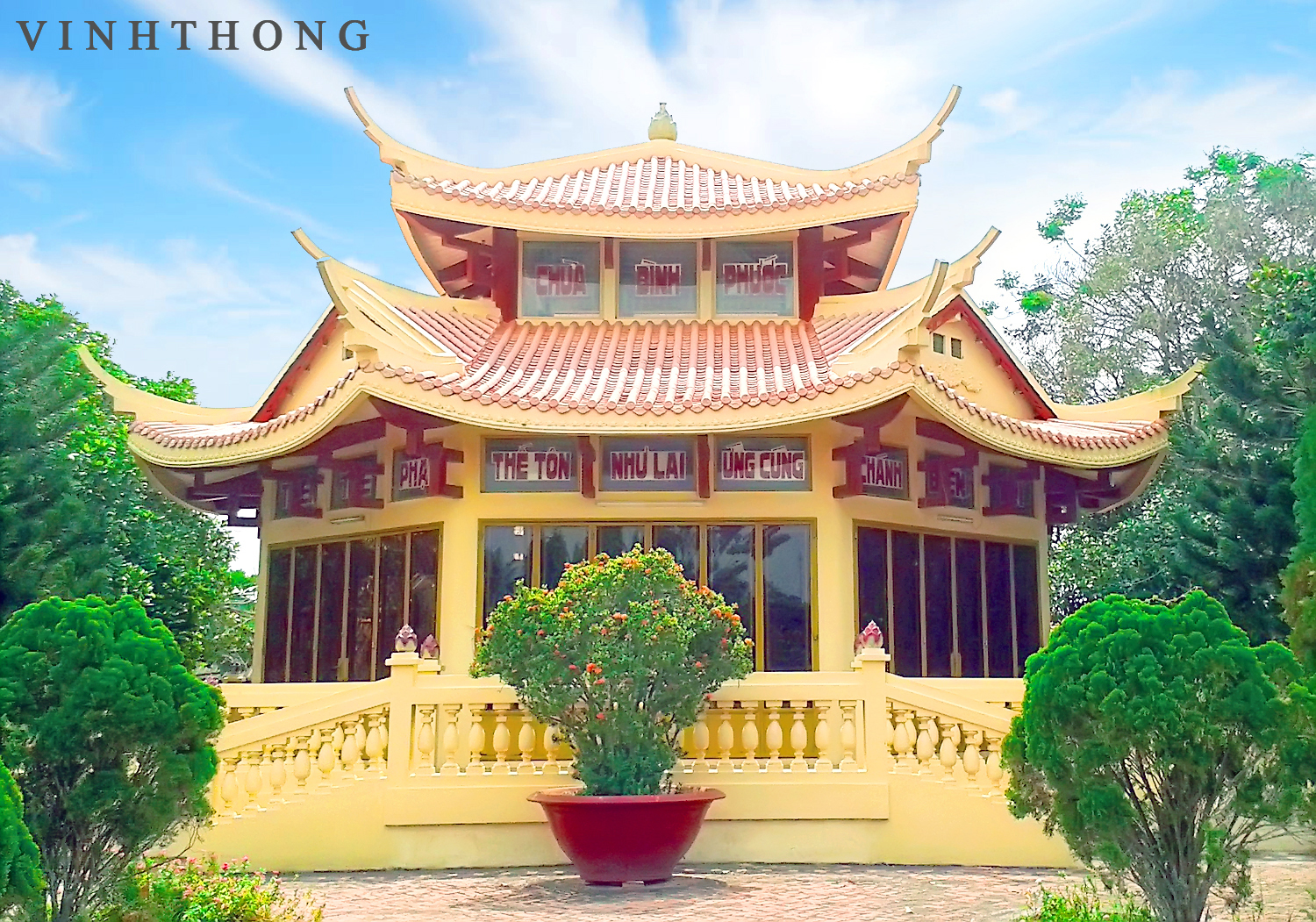 Chùa Bình Phước, xã Bình Thủy, Châu Phú, An Giang